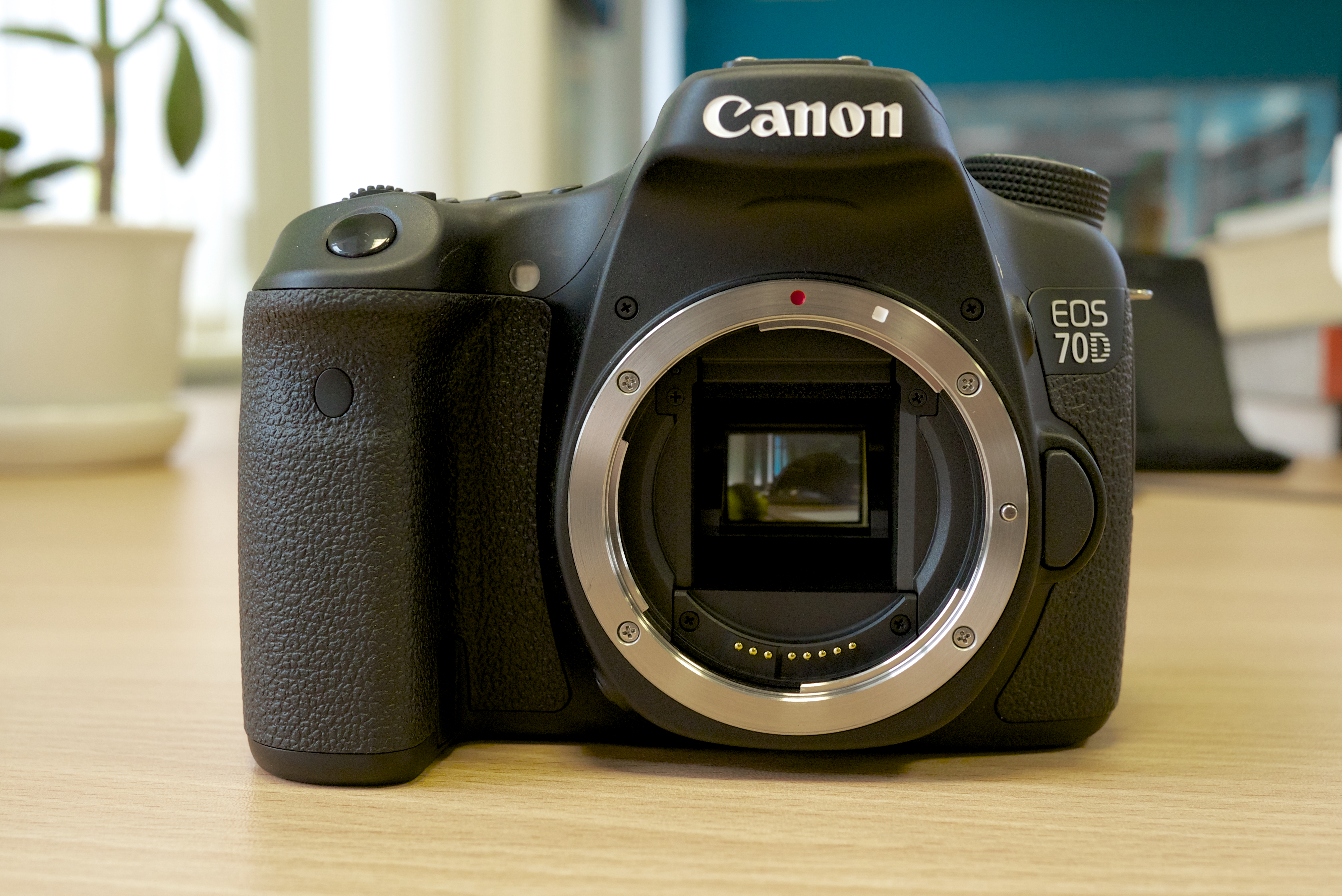 Canon EOS 70D